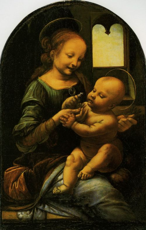 1475-1478. Oil on canvas, transferred from panel. The Hermitage, St. Petersburg, Russia Mary and her child are naturally engrossed in their game, and their gazes make them appear lifelike to a degree that can be found in no contemporary Italian painting of the Madonna. Leonardo achieved this quality by means of nature studies. In 1478, he noted that he was working on two Madonnas. The Benois Madonna can be dated to that period. The painting has in its present condition been overpainted in some places and has lost some of the paint layer. The painting was also called the Madonna Benois because of the family who owned it. This canvas demonstrates the newly developed method of chiaroscuro - a lighting/shading technique that made the figures appear three dimensional. It entered the Hermitage in 1914.